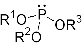 General structure of a phosphite created with ChemDraw.